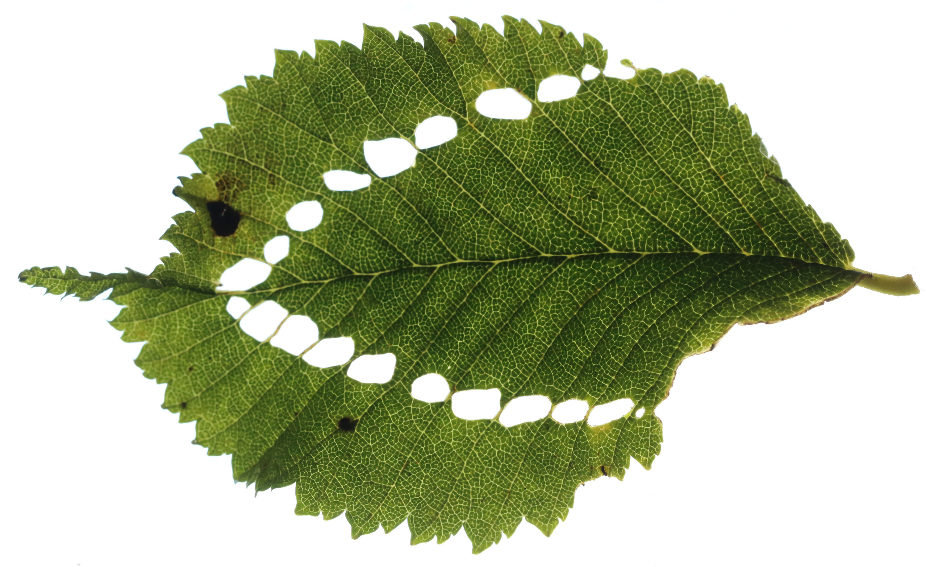 Epinotia abbreviana feeding damage, Eyarth Rocks, North Wales, Sept 2016